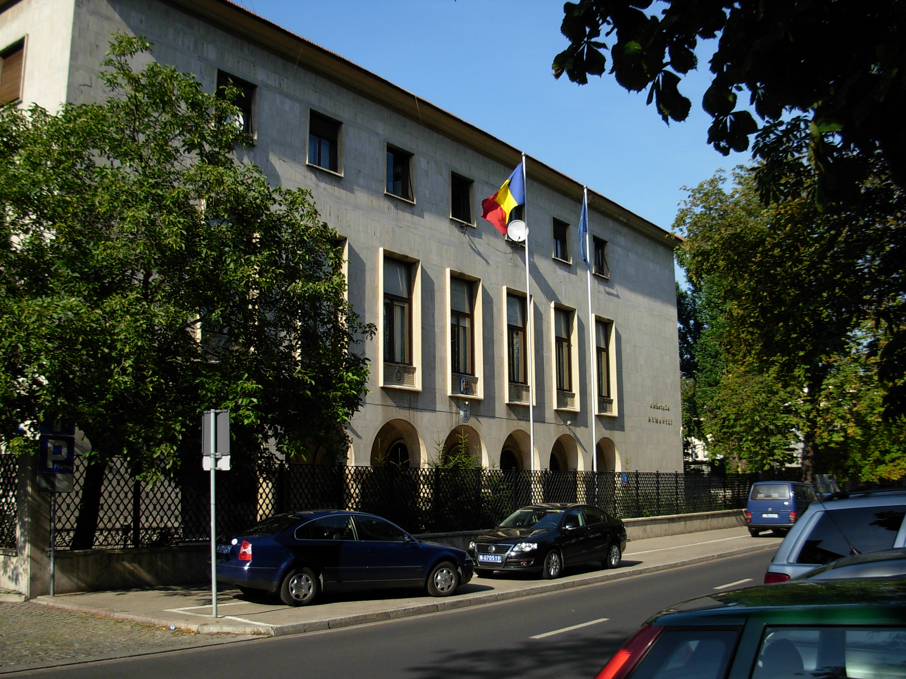 Romanian Embassy in Warsaw